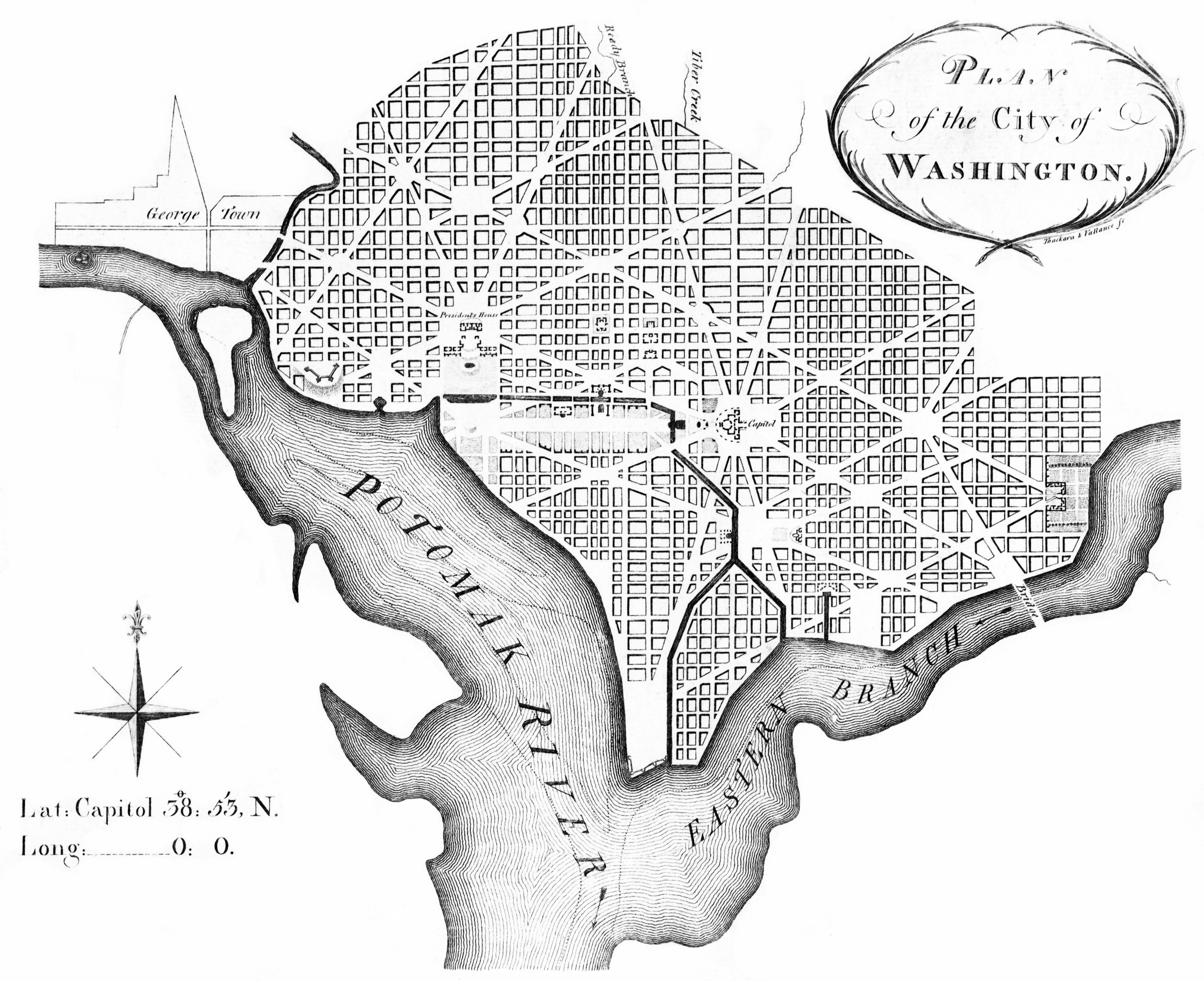 Plan of the City of Washington, March 1792, Engraving on paper, see Library of Congress record